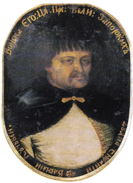 v.kochubej